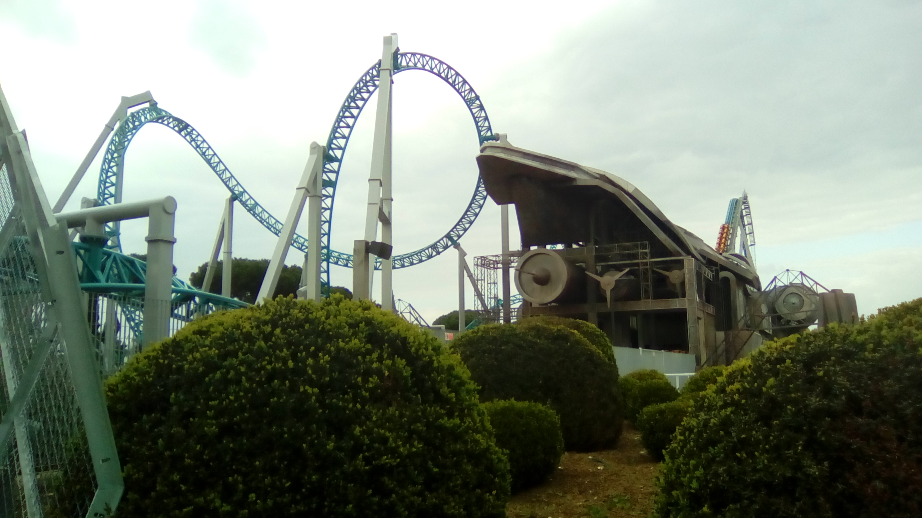 Roller coaster "Altair", Cinecittà World, Italy.